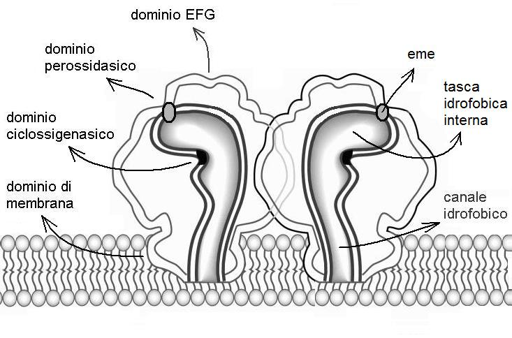 COX-1 structure